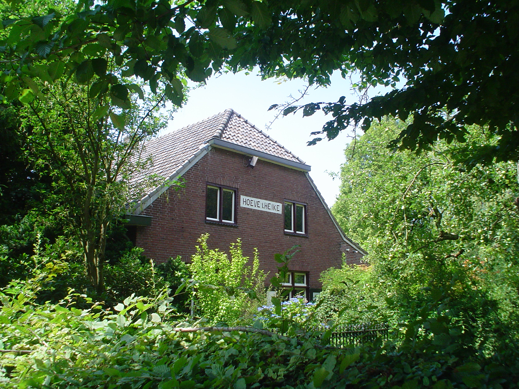 Farmhouse 't Heike in Veldhoven, the Netherlands. Built in 1935 after the old farm was destroyed in a fire.